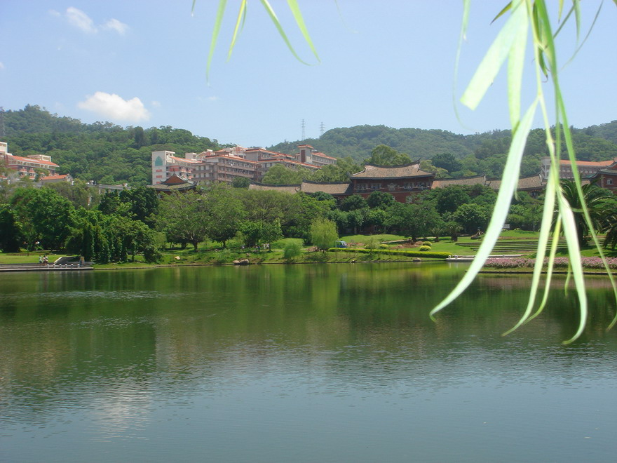 Picture shot by Lukacs at Xiamen University, China.